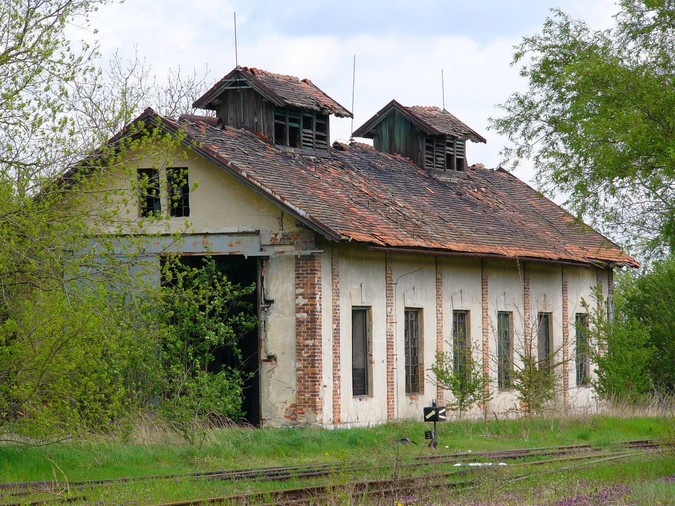 Plavecký Mikuláš – railway station, shed building ruin, April 2008